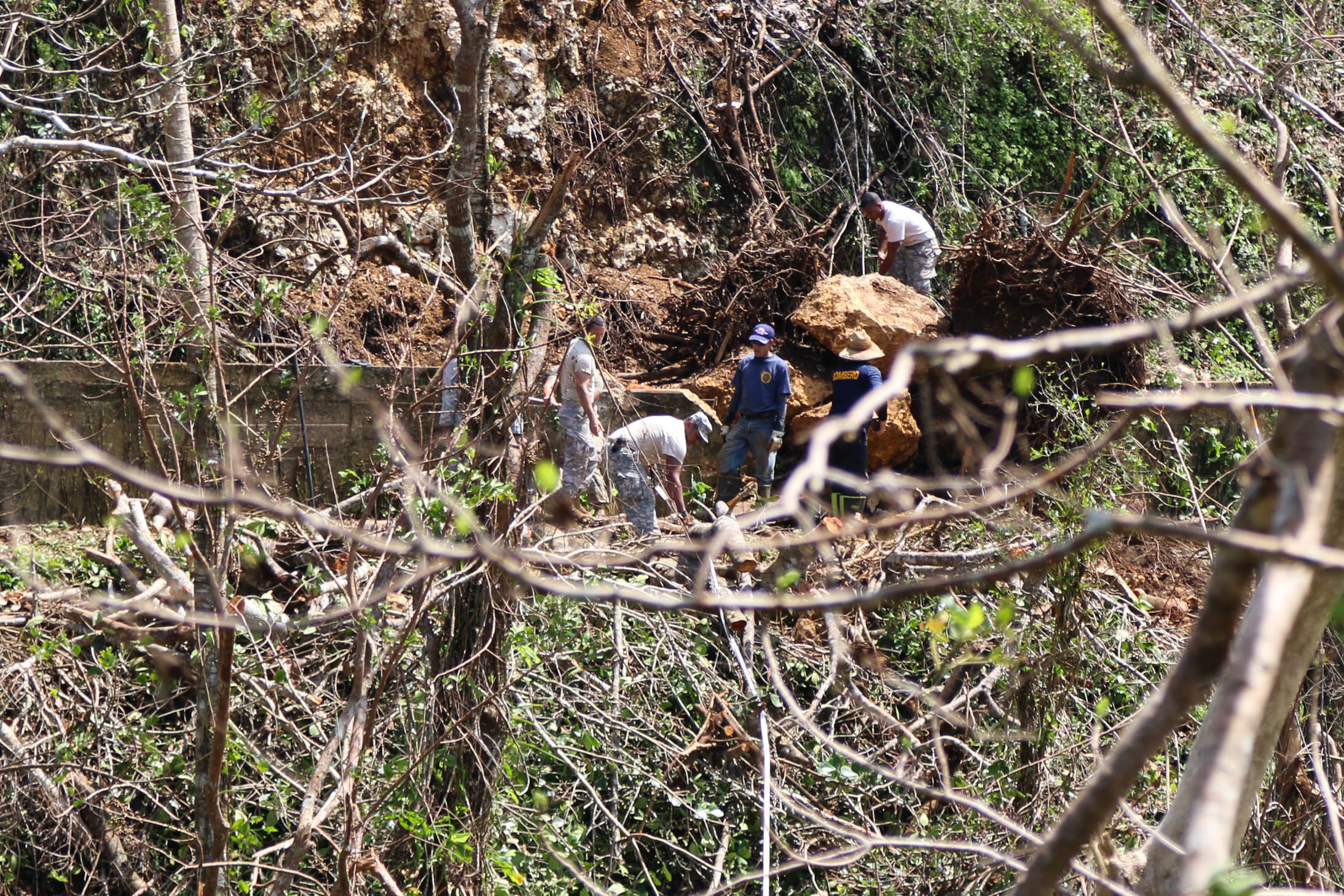 Citizen-Soldiers of the Puerto Rico National Guard, 1013th En. Co. (Sappers), 130th Battalion, 101st Troop Command, performed clearing and reconstruction work on a 10-mile stretch of the water channel system near the neighborhood of Llanadas, Isabela, Oct. 2. The Soldiers worked alongside a group of firefighters clearing and repairing the structure, built in 1927, which suffered serious damage by Hurricane Maria. After the works get completed more than 100 thousand people in the municipalities of Aguadilla, Aguada, Isabela, Moca, Rincón, San Sebastián and Quebradillas will start receiving water service in their homes again thus helping relieve the water pressure at the lake Guajataca Dam. (PRNG photos by: Sgt. Alexis Vélez)